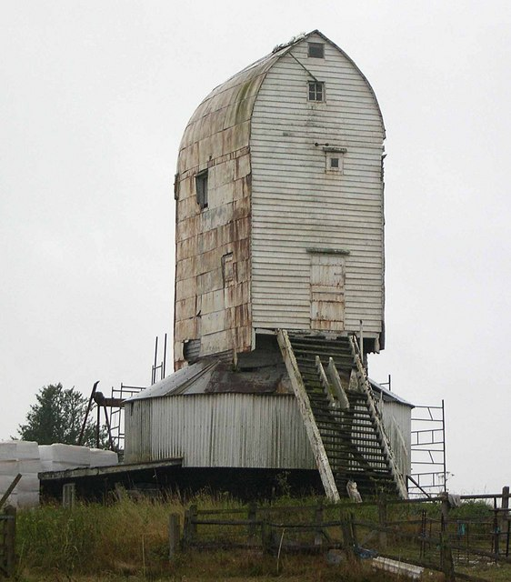 Photograph of New mill, Cross in Hand